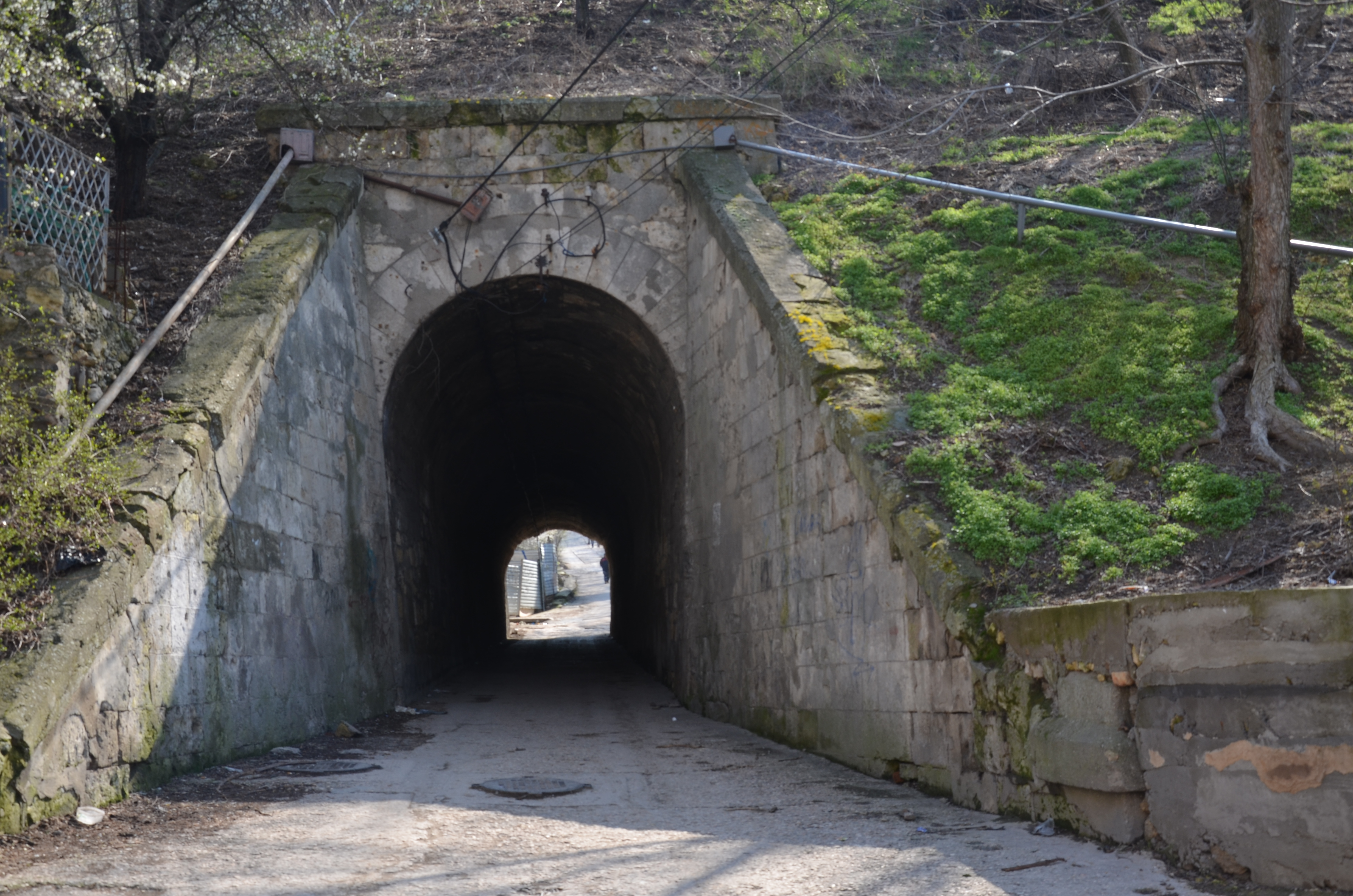 Tunnel under railway in Apollonova Gully